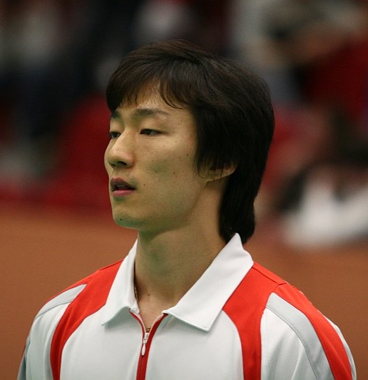 Lee Hyun-il at 2008 German Open in Mülheim an der Ruhr.